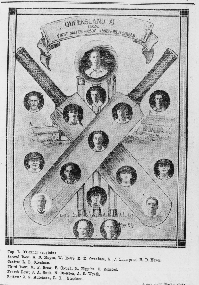 Queensland XI team for Sheffield Shield match against New South Wales Brisbane Queensland 1926, includes Alexander Dunbar Aitken Mayes